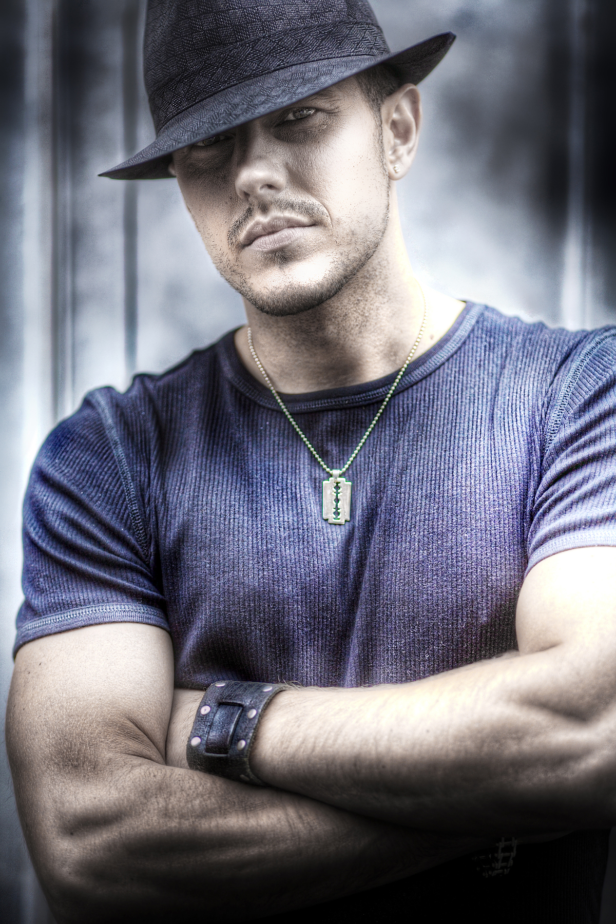 Lee Latchford-Evans promo shoot London.